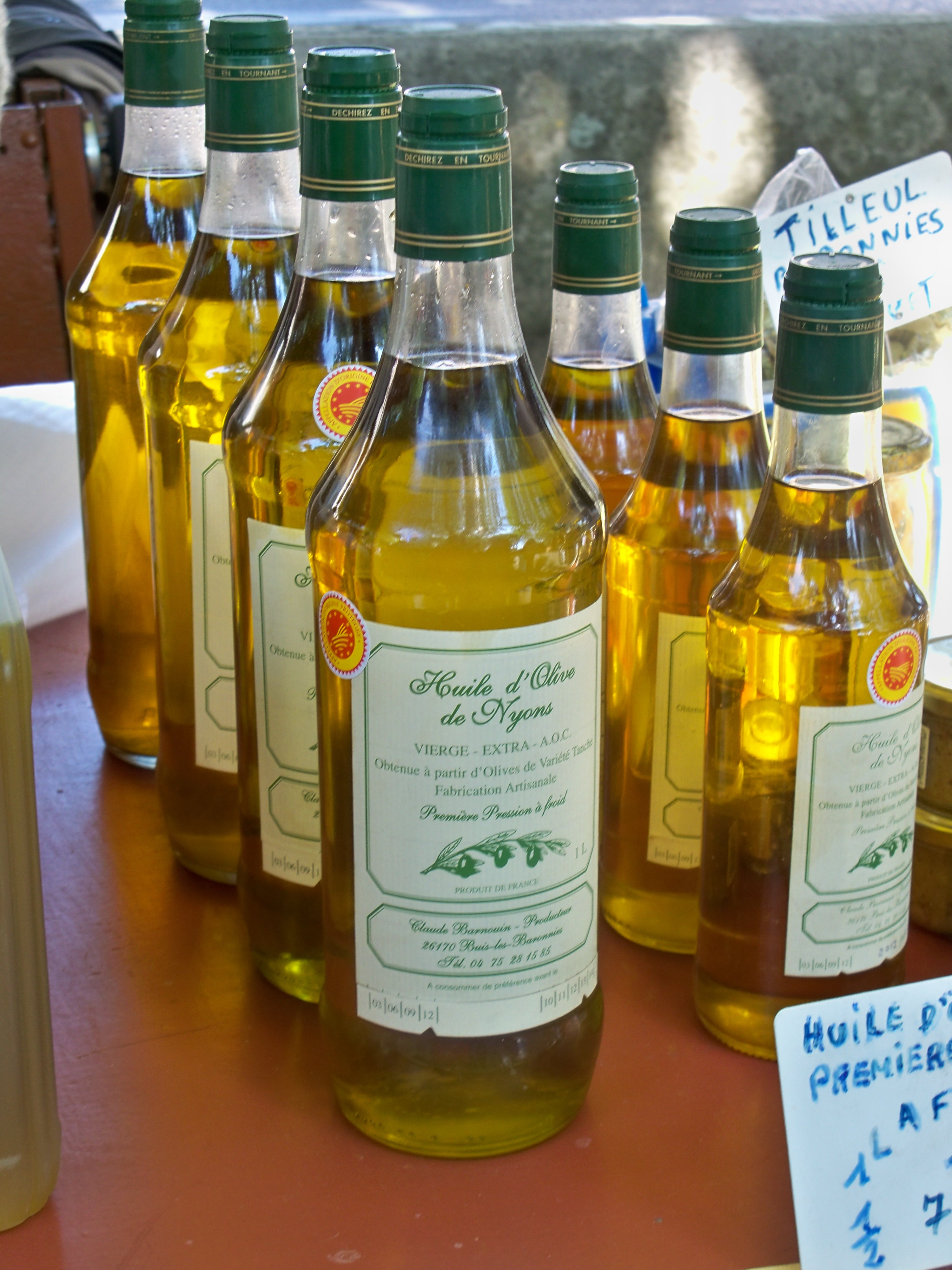 olive oil bottles on the market of Carpentras